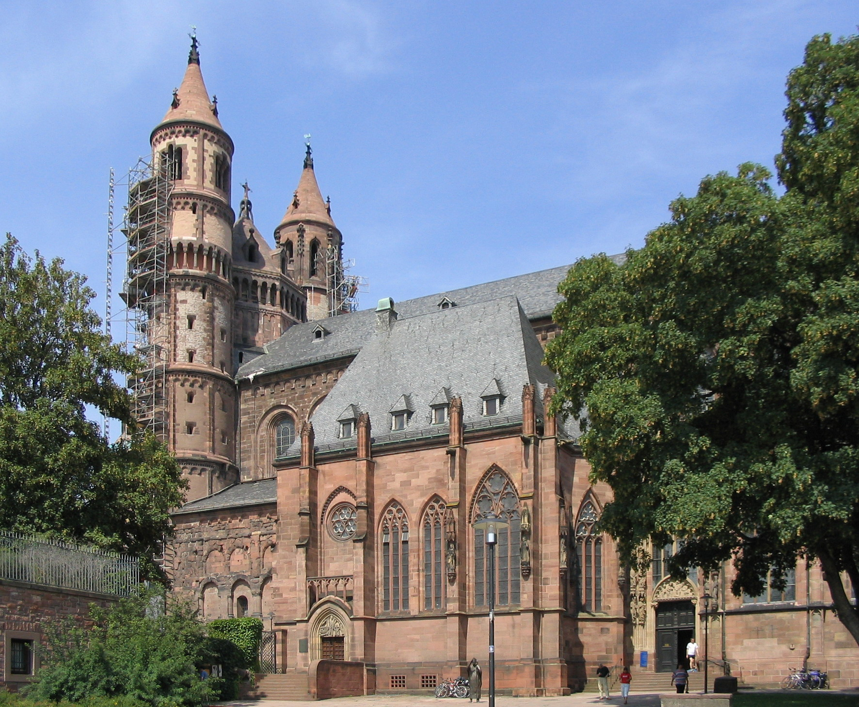 Worms Cathedral (Cathedral of St. Peter) from south